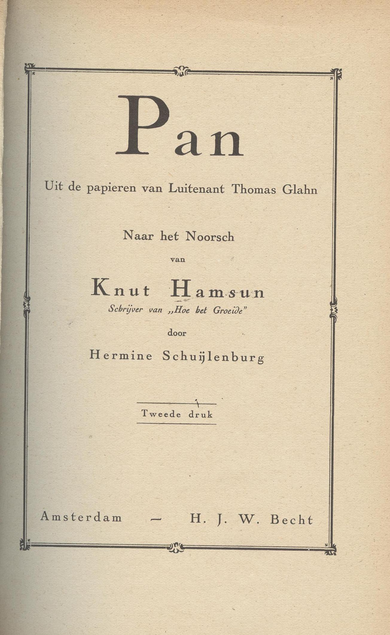 Panfront